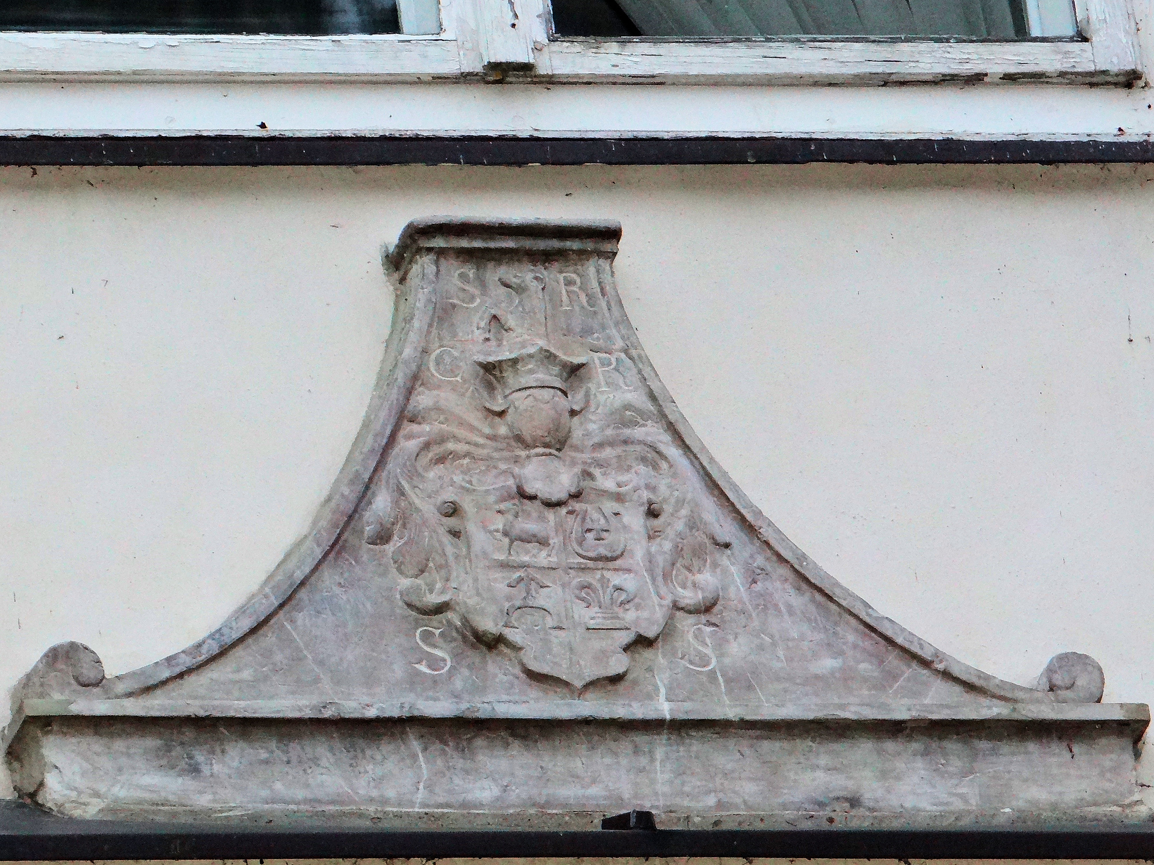 Detail of Radziejowice castle